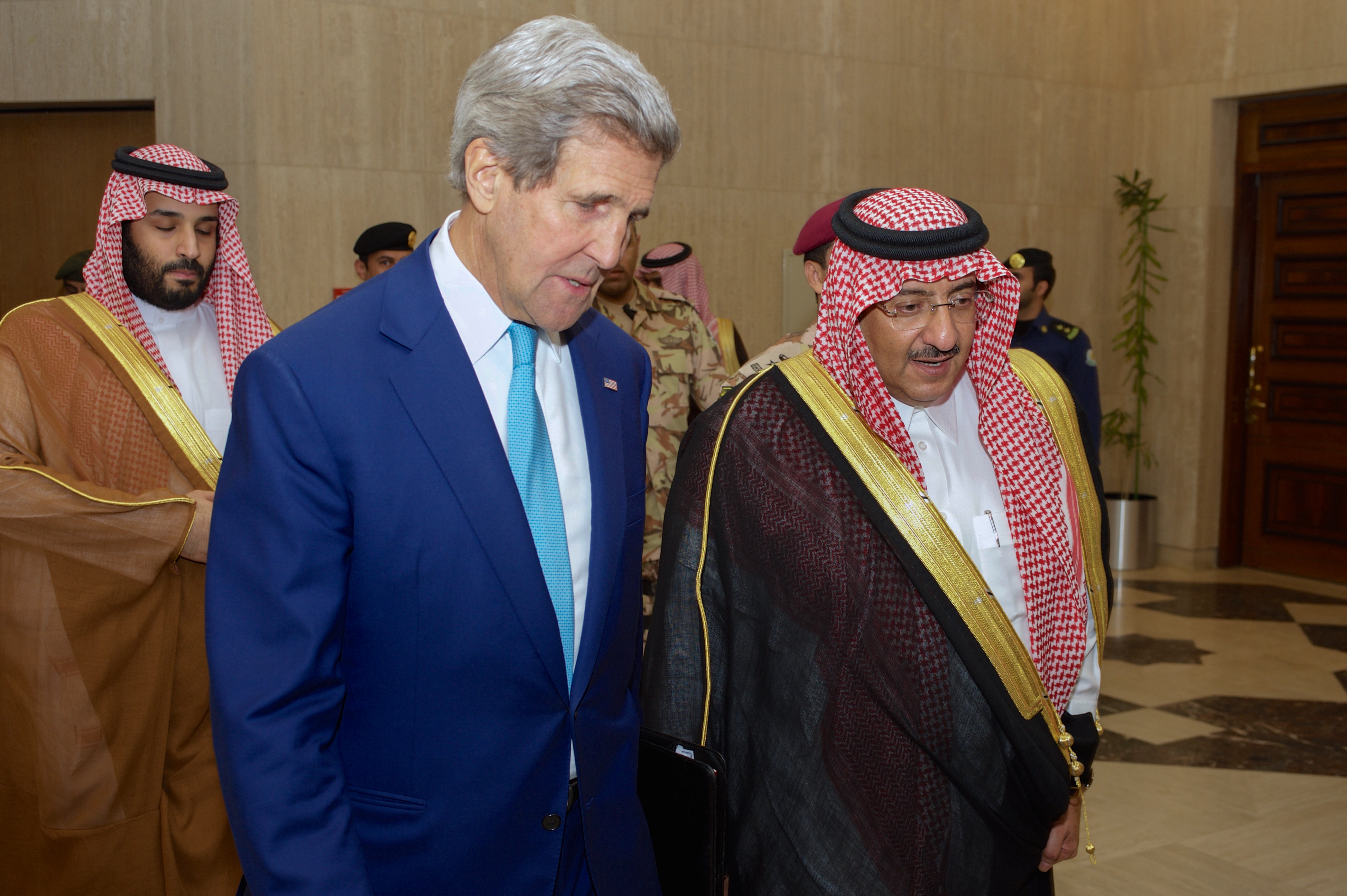 U.S. Secretary of State John Kerry walks with Crown Prince Mohammed bin Nayef, upon arriving at the Saudi Ministry of Interior in Riyadh, Saudi Arabia, on May 6, 2015, for a meeting and working dinner with him, Adel Al-Jubeir, the newly named Saudi Foreign Minister, and other government leaders including Mohammad bin Salman Al Saud. [State Department photo/ Public Domain]